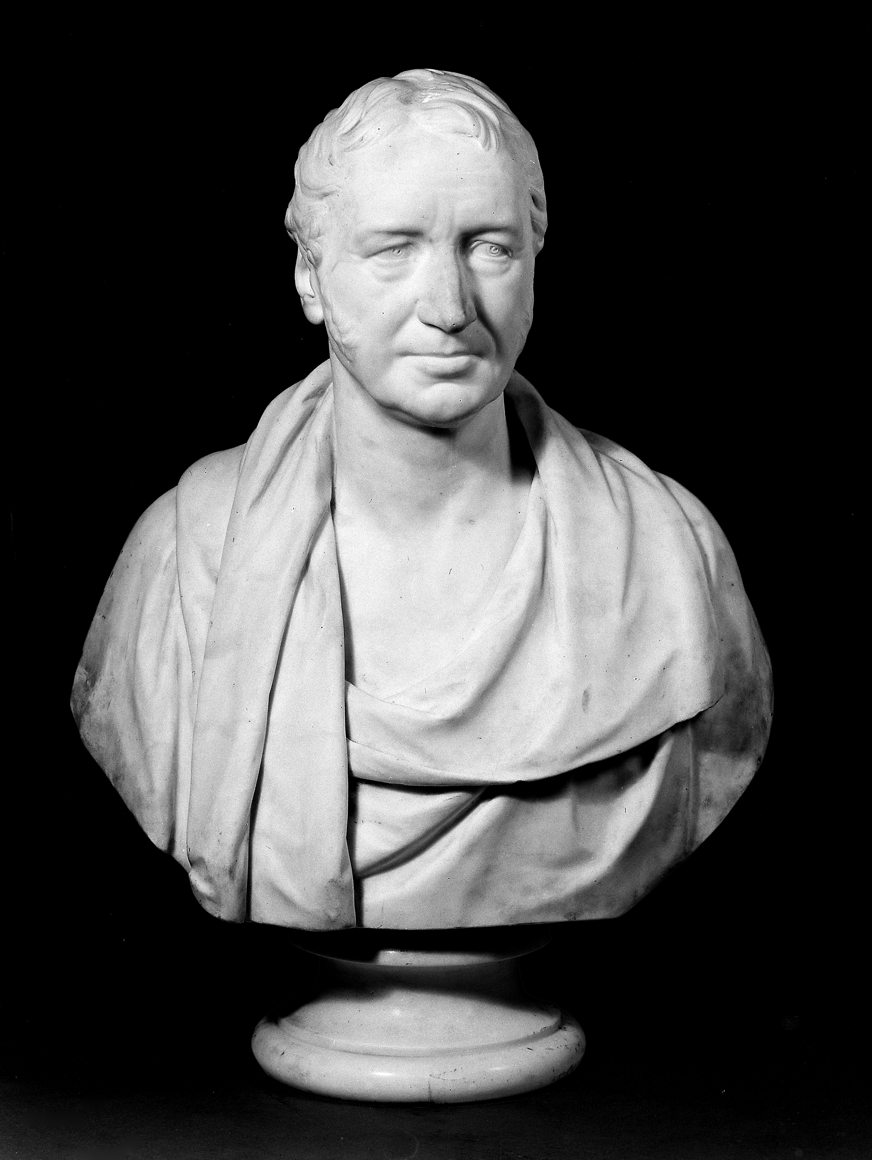 Bust of Sir Benjamin Collins Brodie, charcoal. Signed 'W. BEHNES, SCULP. LONDON, 1836' Iconographic Collections Keywords: Benjamin Collins Brodie; W. Behnes